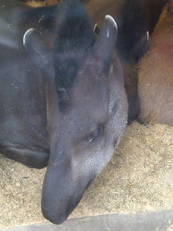 Head of the South American tapir (Tapirus terrestris) at the Bristol Zoological Gardens, England.